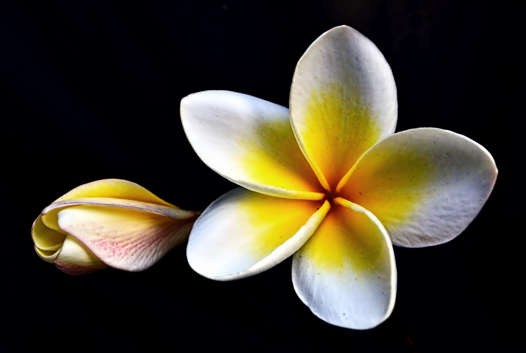 White Plumeria from Kannur - Kerala